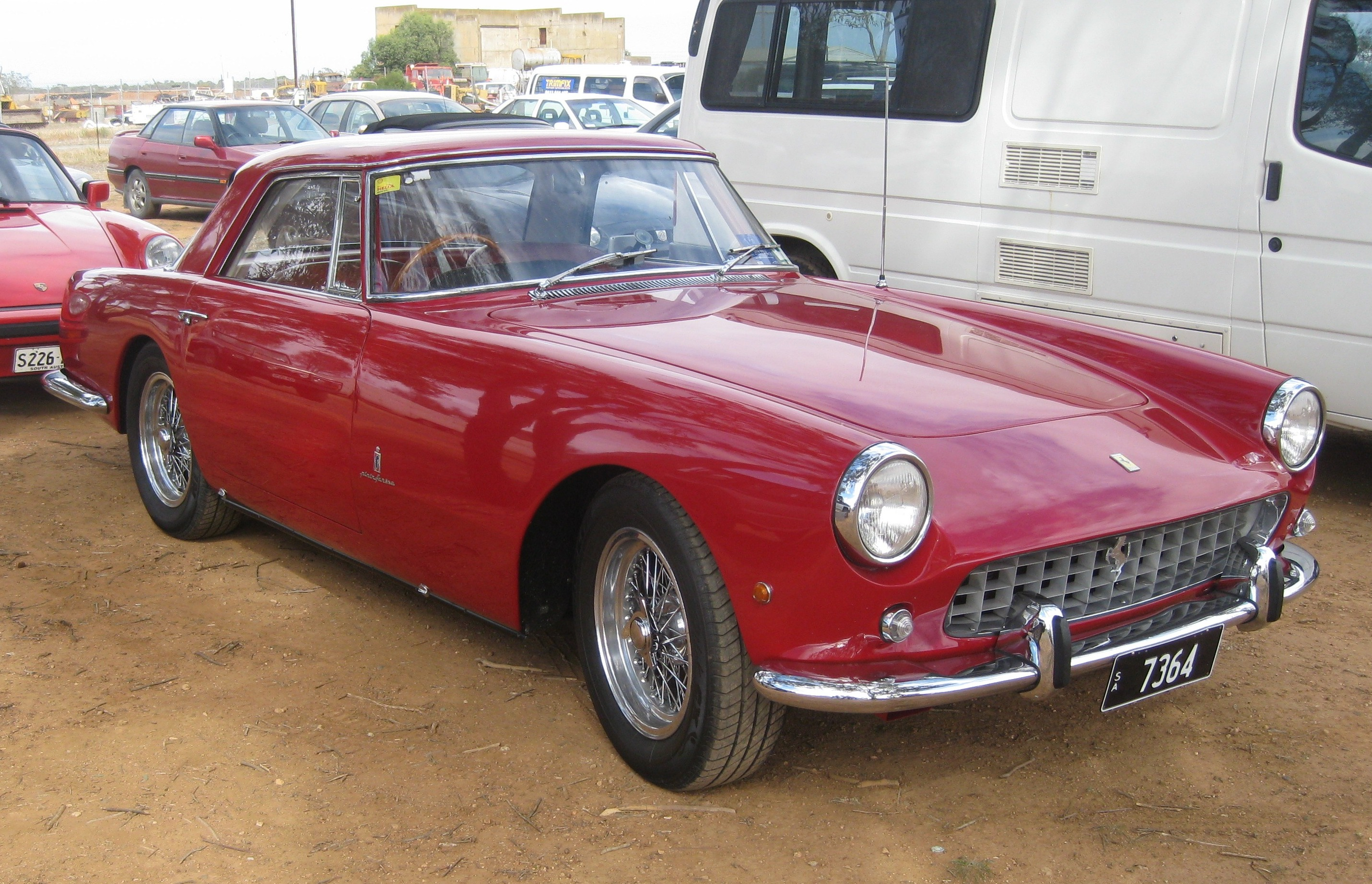 Ferrari 250 GT Coupe Pininfarina